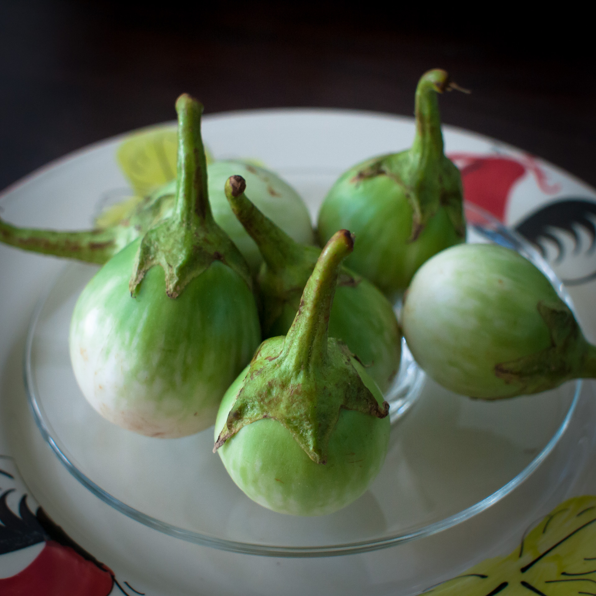 Cultivar of Solanum melongena L. Makheua pro [makheūa prǿ] (Thai script: มะเขือเปราะ) ping pong ball sized Thai aubergines/eggplants. Often eaten raw with a chilli dip or semi raw in Thai curries.